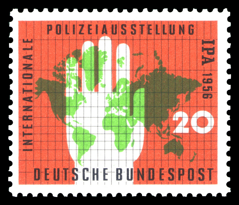 Internationale Polizeiausstellung in Essen